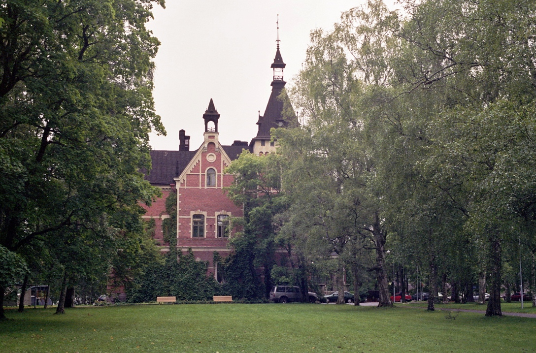 Villa Idman near the manor of Hatanpää in Tampere, Finland. Designed by architect Sebastian Gripenberg, the building was constructed in 1898. (The image has been rotated and cropped somewhat, as the original photo was rather tilted.)